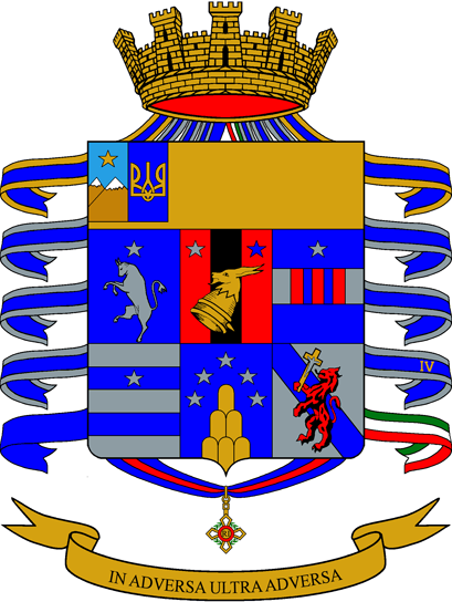 Coat of Arms of the 4° Alpini Regiment; Italian Army.